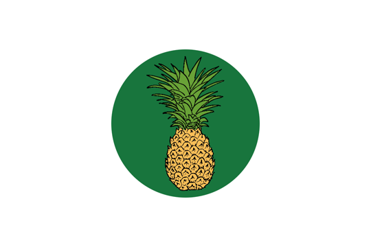 State flag of Western Equatoria in South Sudan and formerly Sudan.